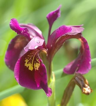 User:Steve nova has identified this as an Iris of some kind.